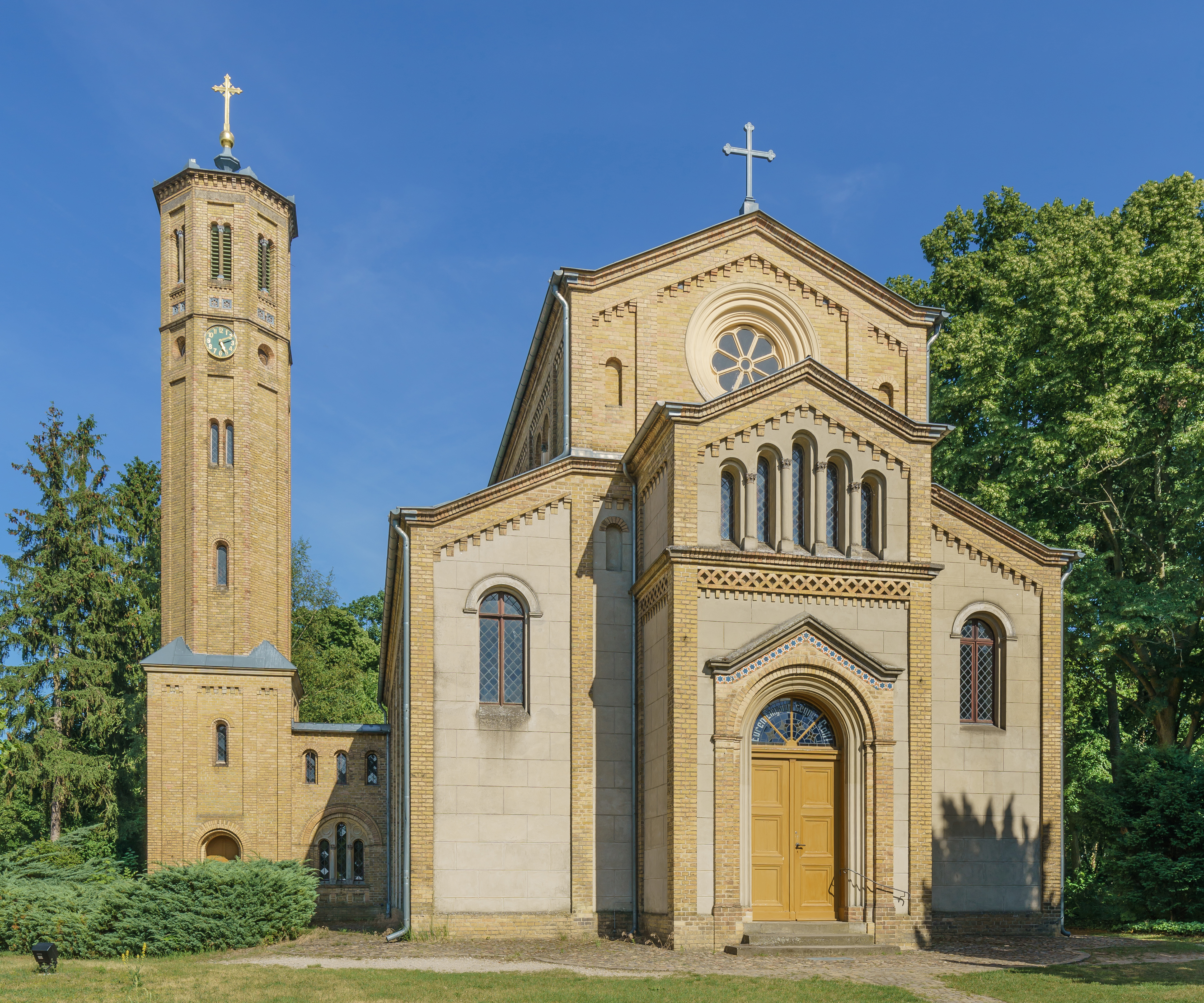 Village church in Caputh (Schwielowsee) near Potsdam, Germany